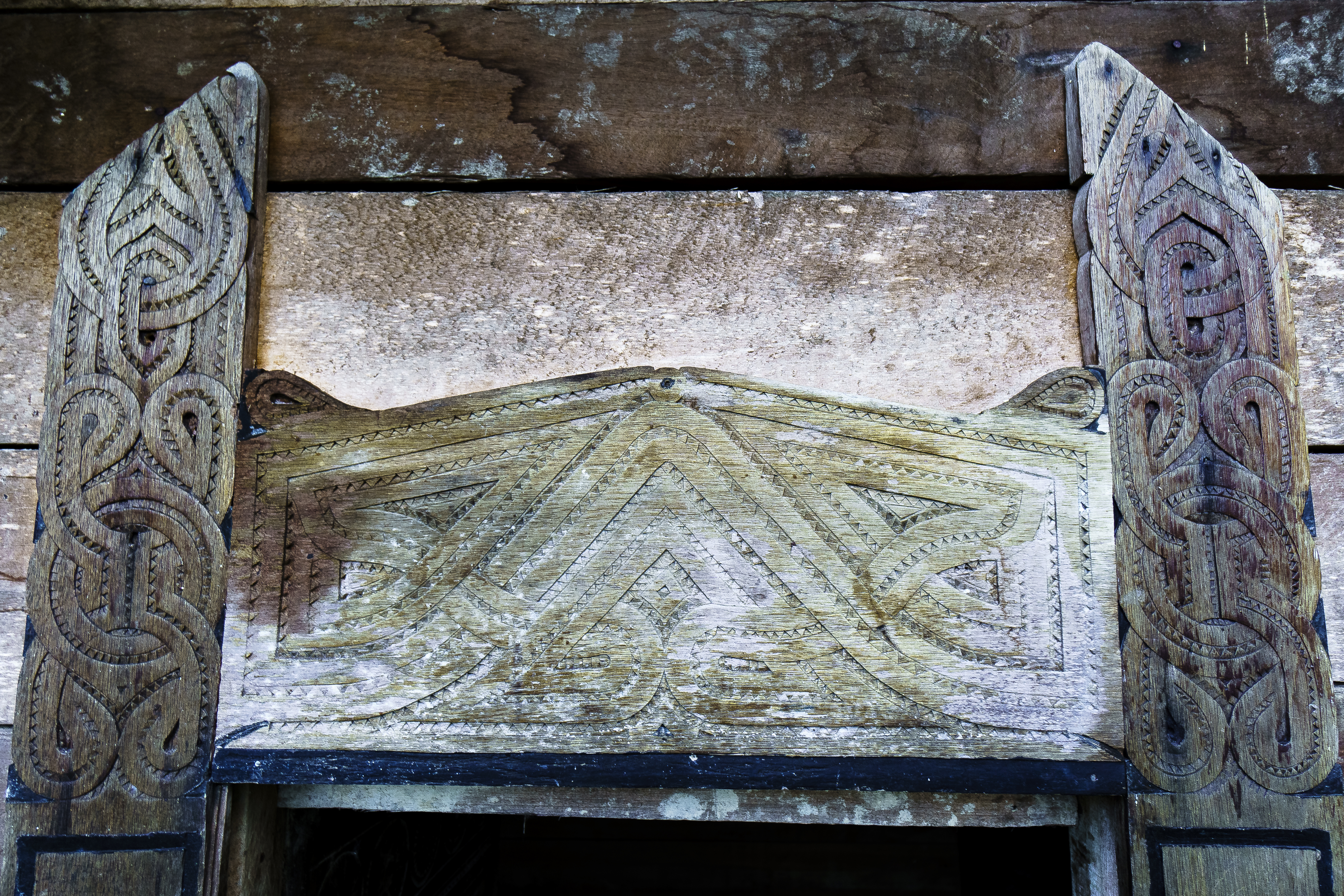 Example of art by the Saramaka tribe. They escaped from the Portuguese and speak the Saramaka language (a Portuguese creole). Their art is almost exclusively carvings.